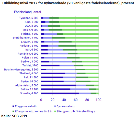 This graph shows education levels of newly arrived immigrants from the 20 most prevalent immigration countries . Dark blue: primary education or less. Blue: secondary education Dark green: tertiary education less than 3 years. Light green: tertiary education more than 3 years. All in percentages.